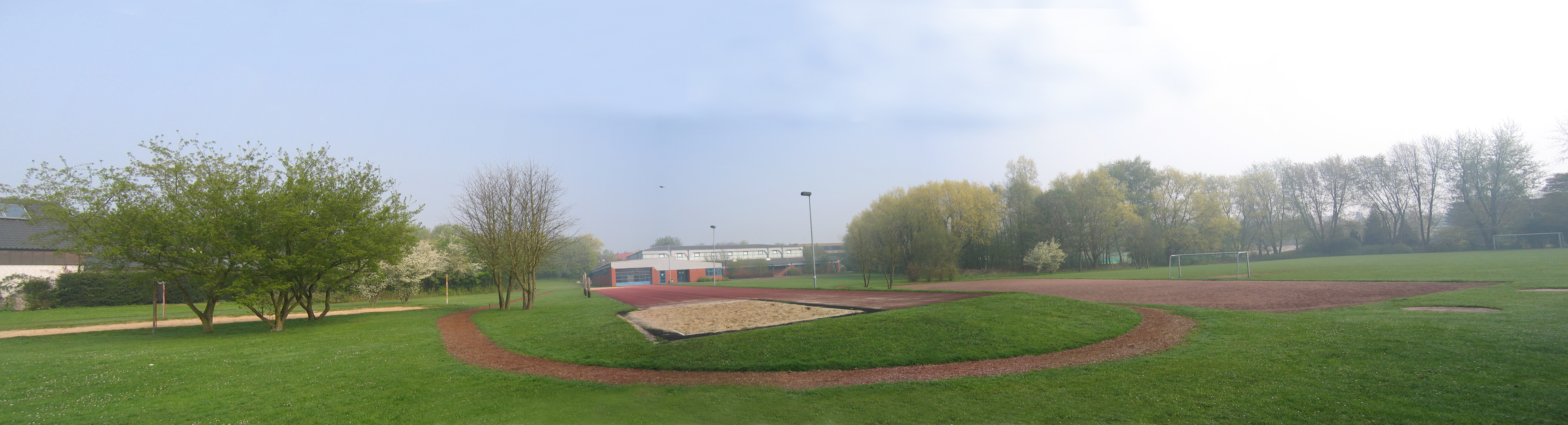 Sports venue in Bünde, District of Herford, North Rhine-Westphalia, Germany.